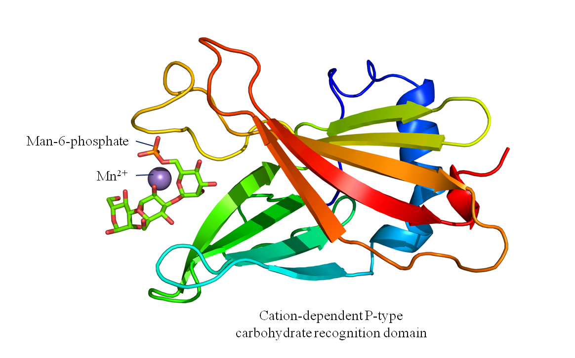 This is a PyMol generated image of the cation-dependent mannose 6-phosphate receptor displaying its ligand and the bound cation